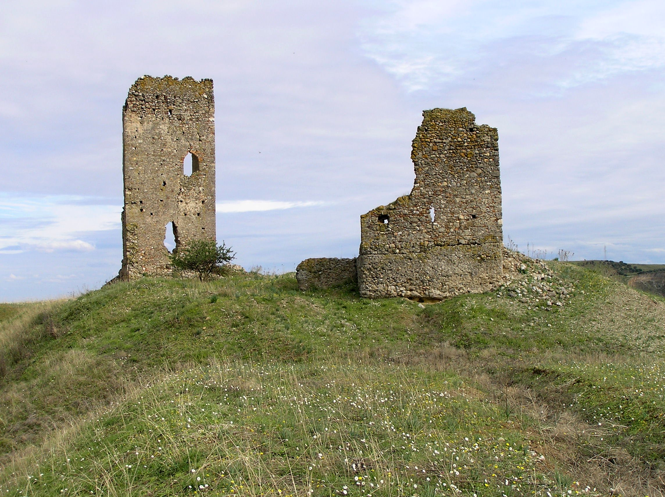 Castle in Spezzano Albanese Scalo